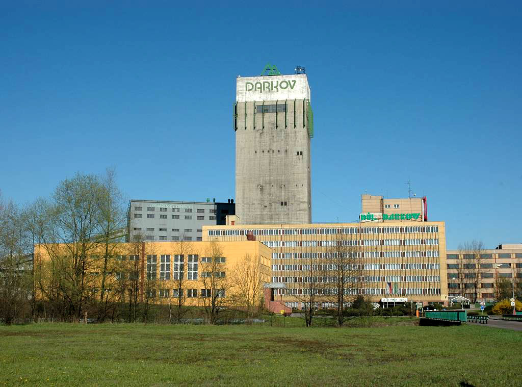 The office building and head frame of "Darkov" mine, Karviná, Czech Republic